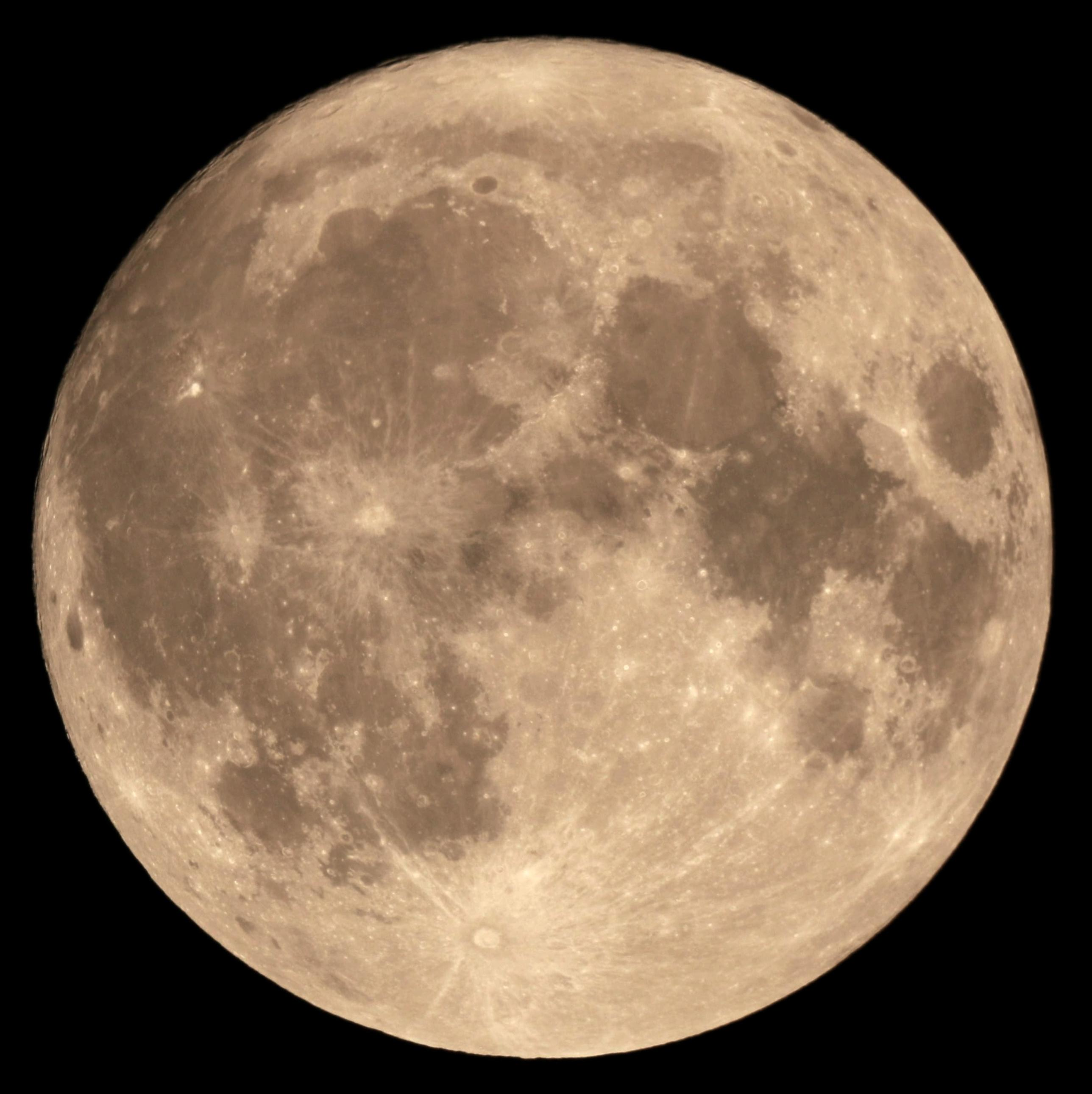 Near-Full moon on 11/14/16, 8" reflector, direct imaging, 6 hours before greatest full moon